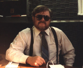 Description: Laird Wilcox, researcher.